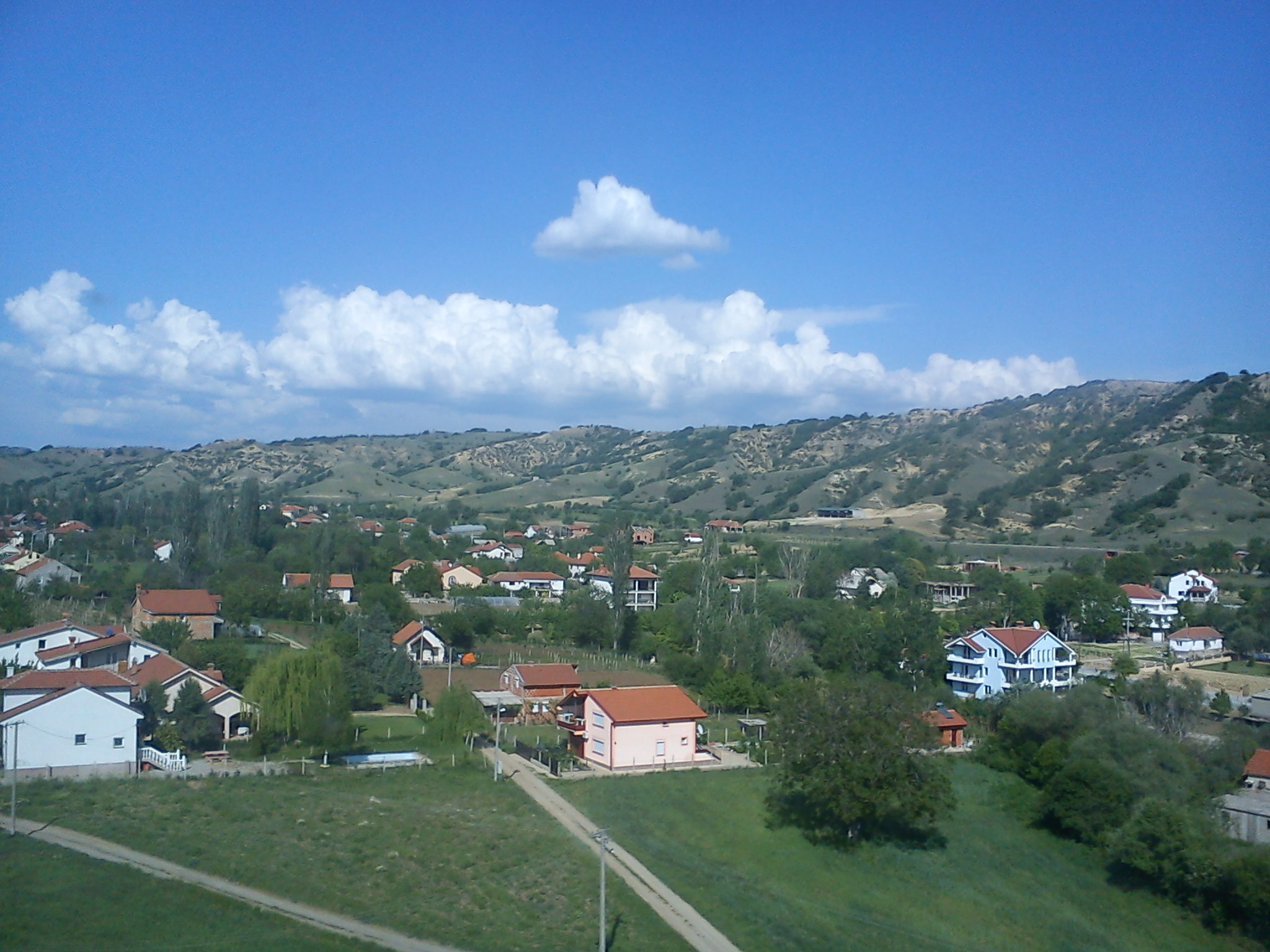 village of Otovica, near Veles, Macedonia